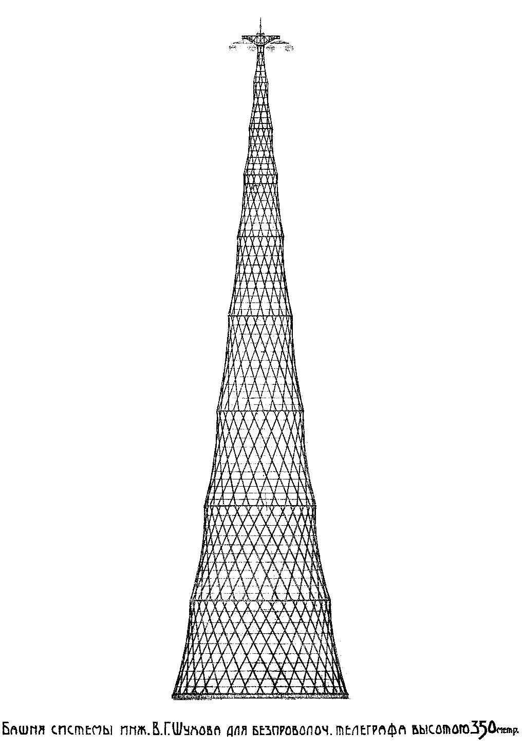 The Hyperboloid Tower Project of 350 metres by Vladimir Shukhov of 1919 year